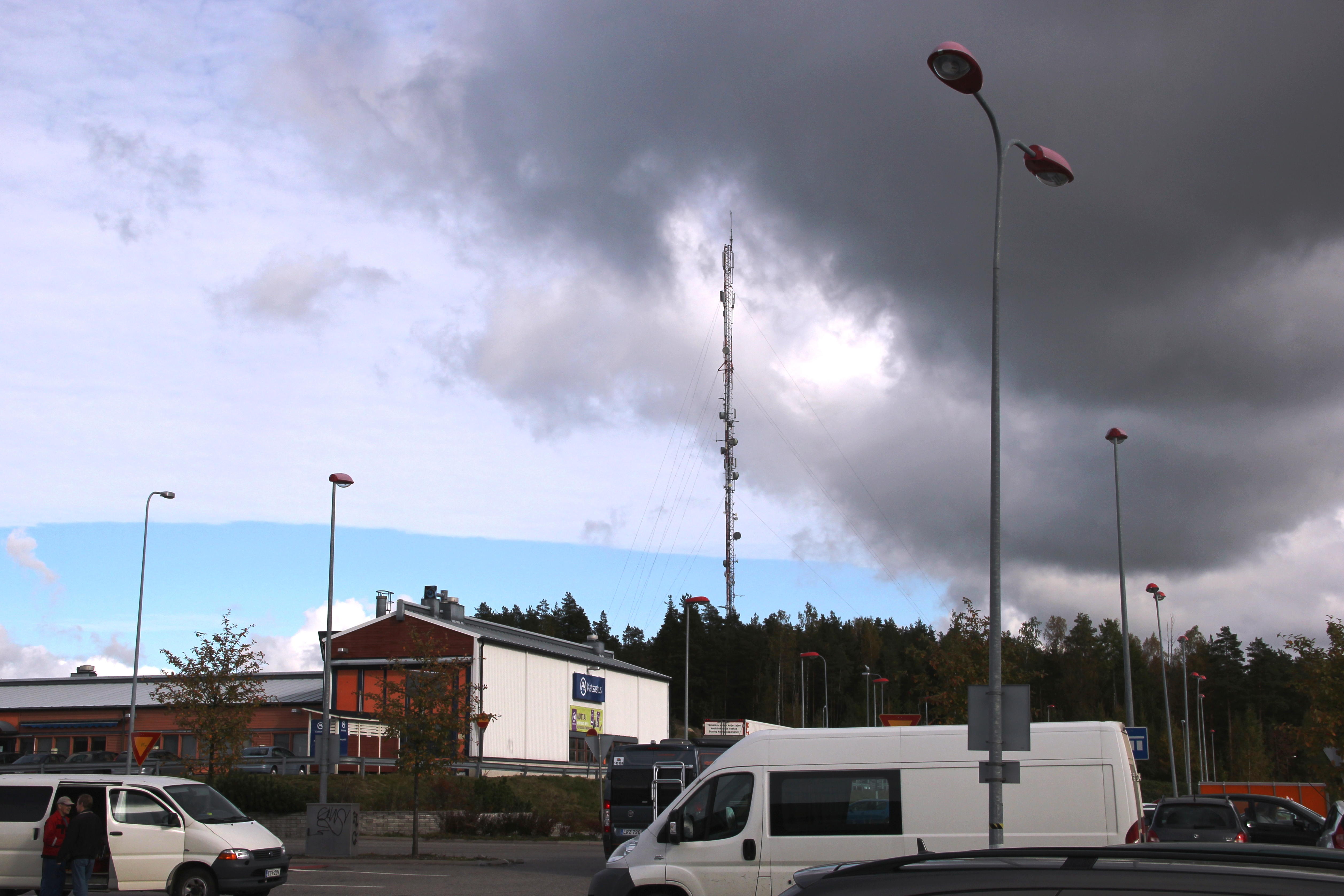 The Vehicle inspection office in Lempola, Lohja, Finland, September 2016 with dramatic clouds.